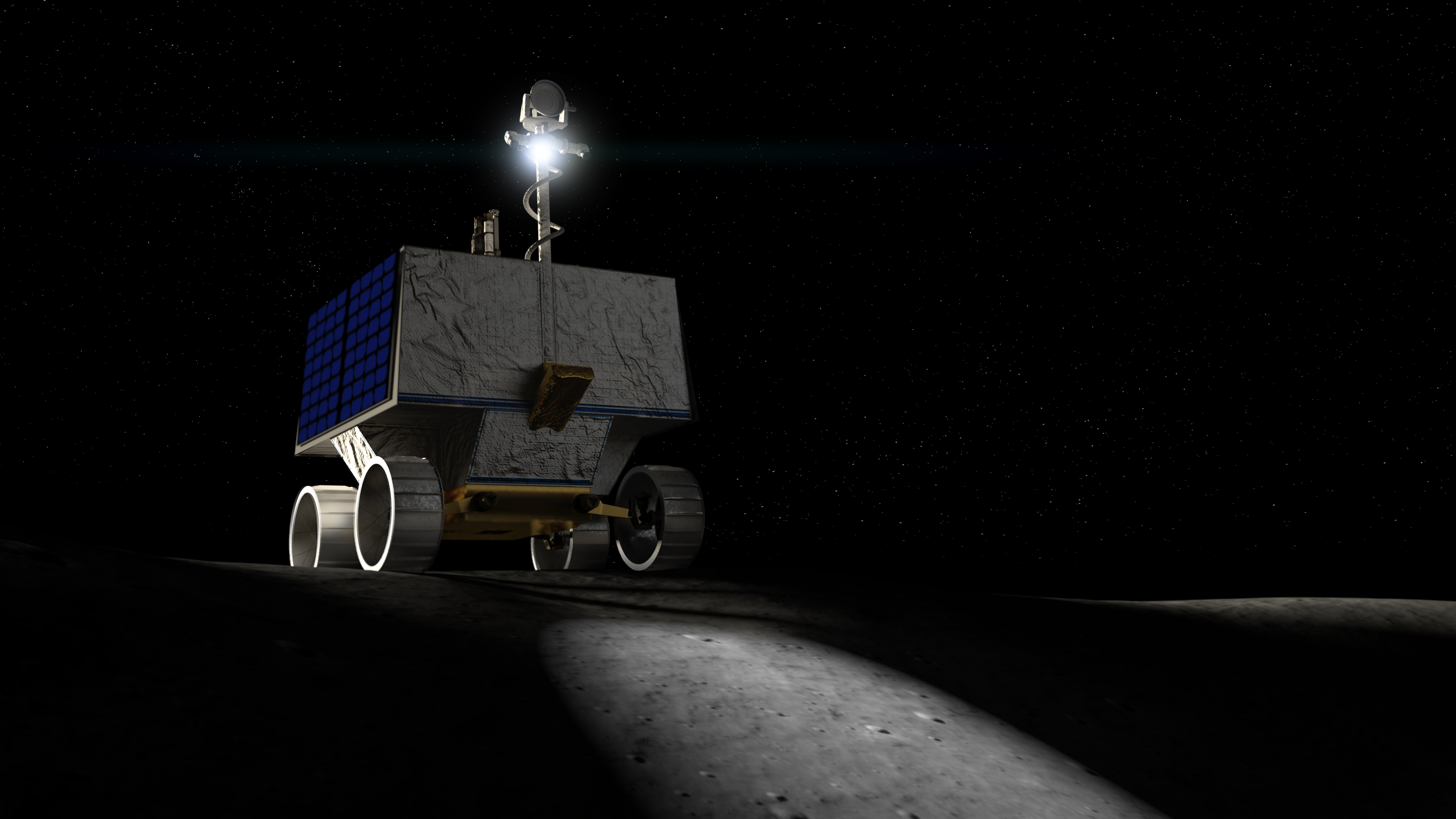 VIPER (Volatiles Investigating Polar Exploration Rover) is a planned robotic lunar rover by NASA, that will be tasked to prospect for natural lunar resources, especially water ice within a permanently shadowed region near the lunar south pole. The VIPER mission is part of the Commercial Lunar Payload Services (CLPS) meant to support the crewed Artemis Program. Launch is expected in late 2023.